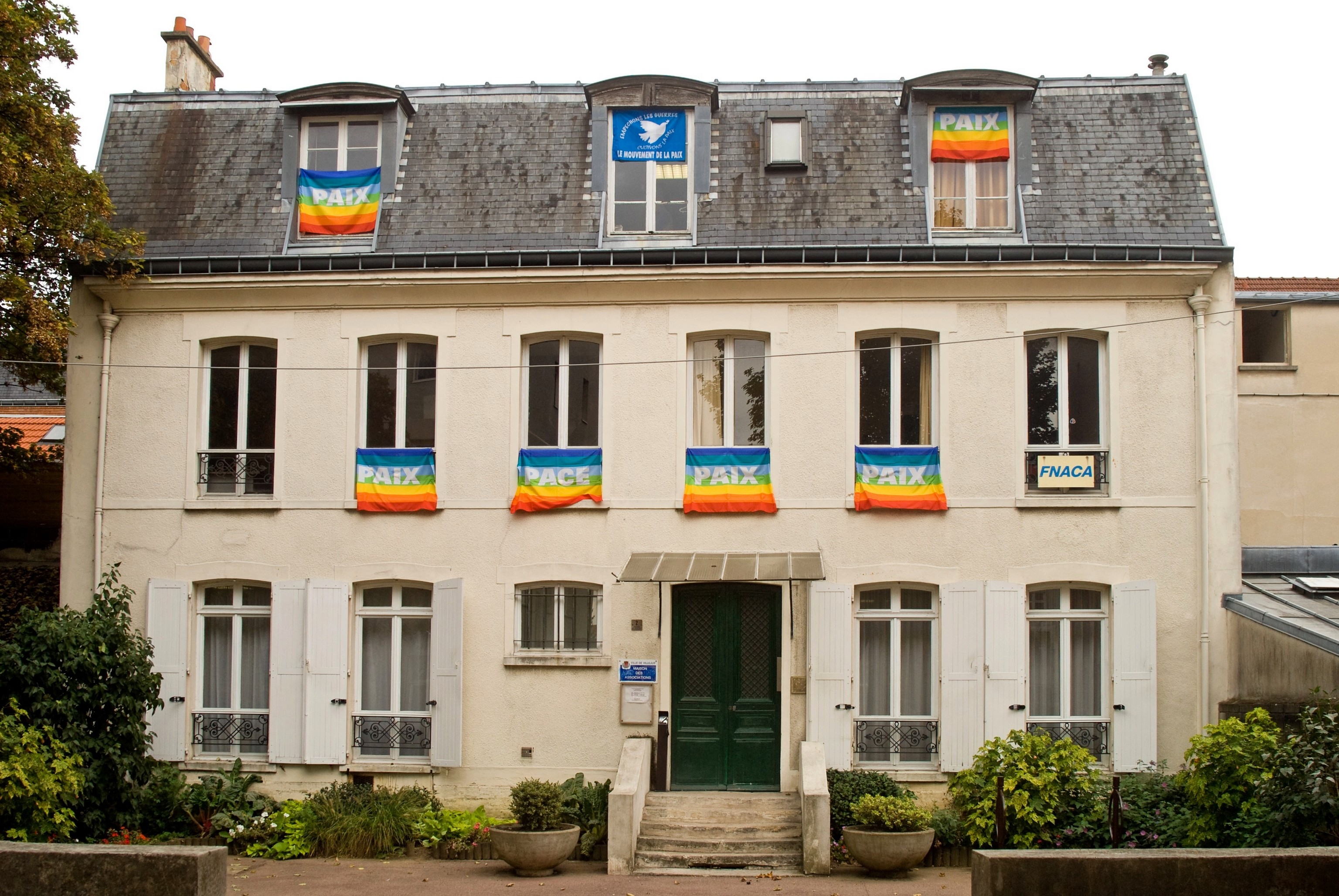 The Maison des associations et de la culture paix (Associations and culture of peace center) in Villejuif (Val-de-Marne).